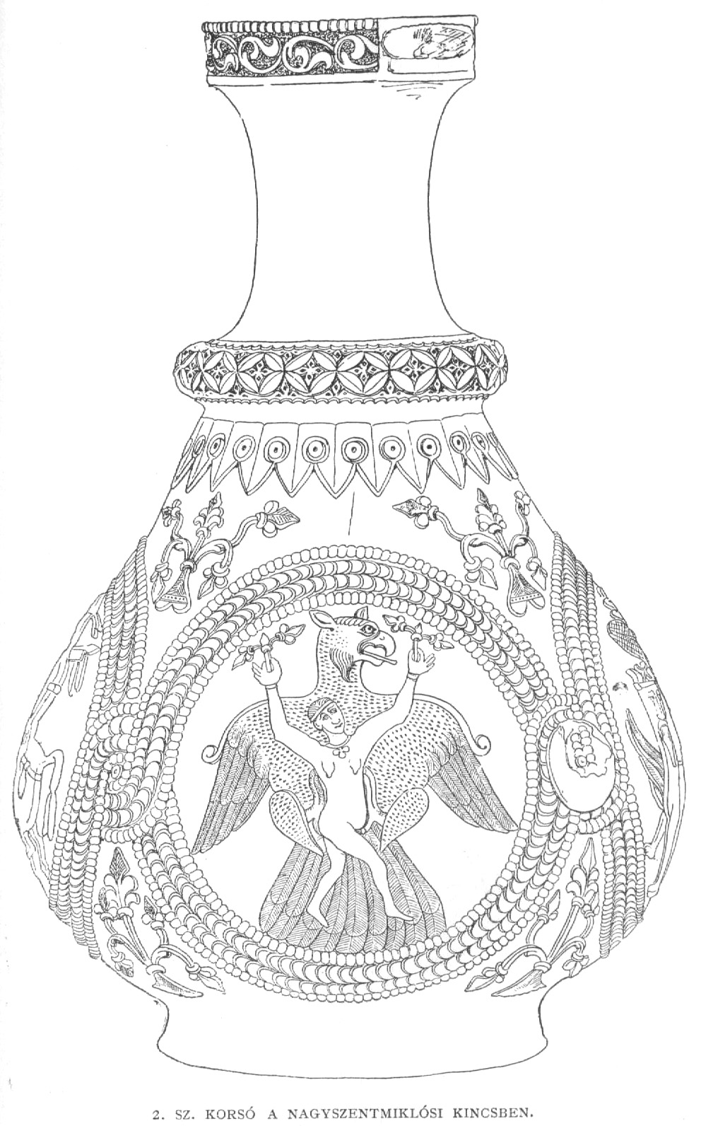 Ewer (jug) No. 2 from Treasure of Nszm